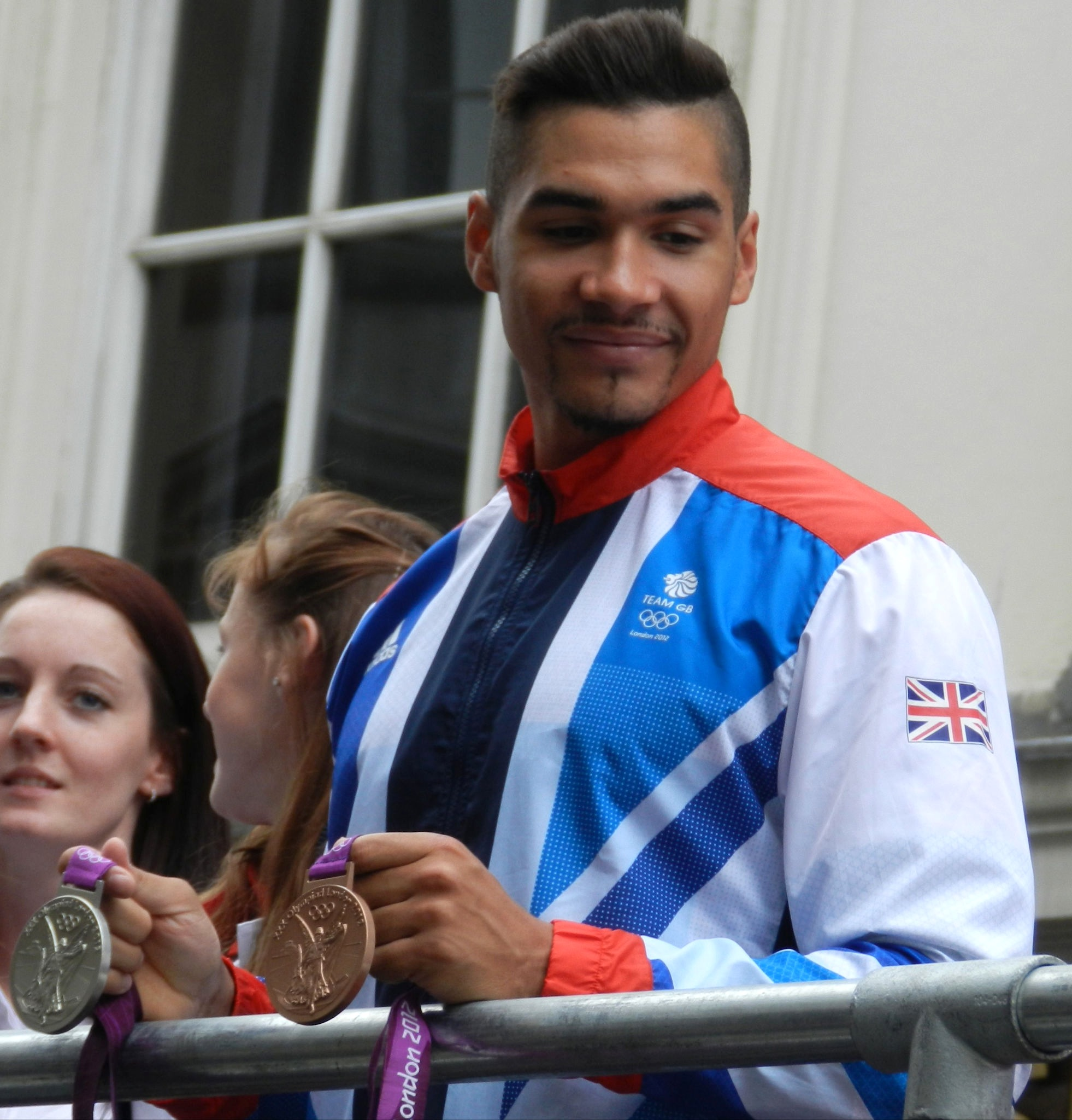 British Olympian Louis Smith at the Olympic Victory Parade in London on 10 September 2012 holding the bronze and silver medals he won during the 2012 Summer Olympic Games